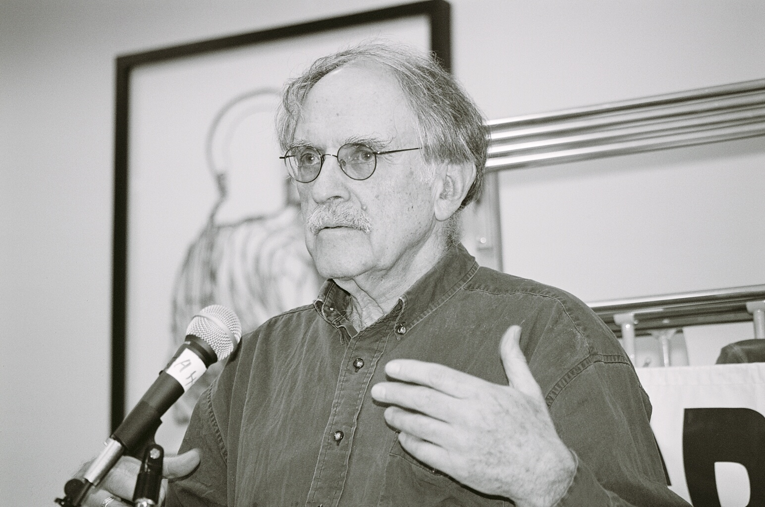 Joel Kovel, speaking at Judson Memorial Church, in 2009.